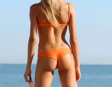 Bikini-girl Silvia on the beach of Cattolica, in Italy (cropped)